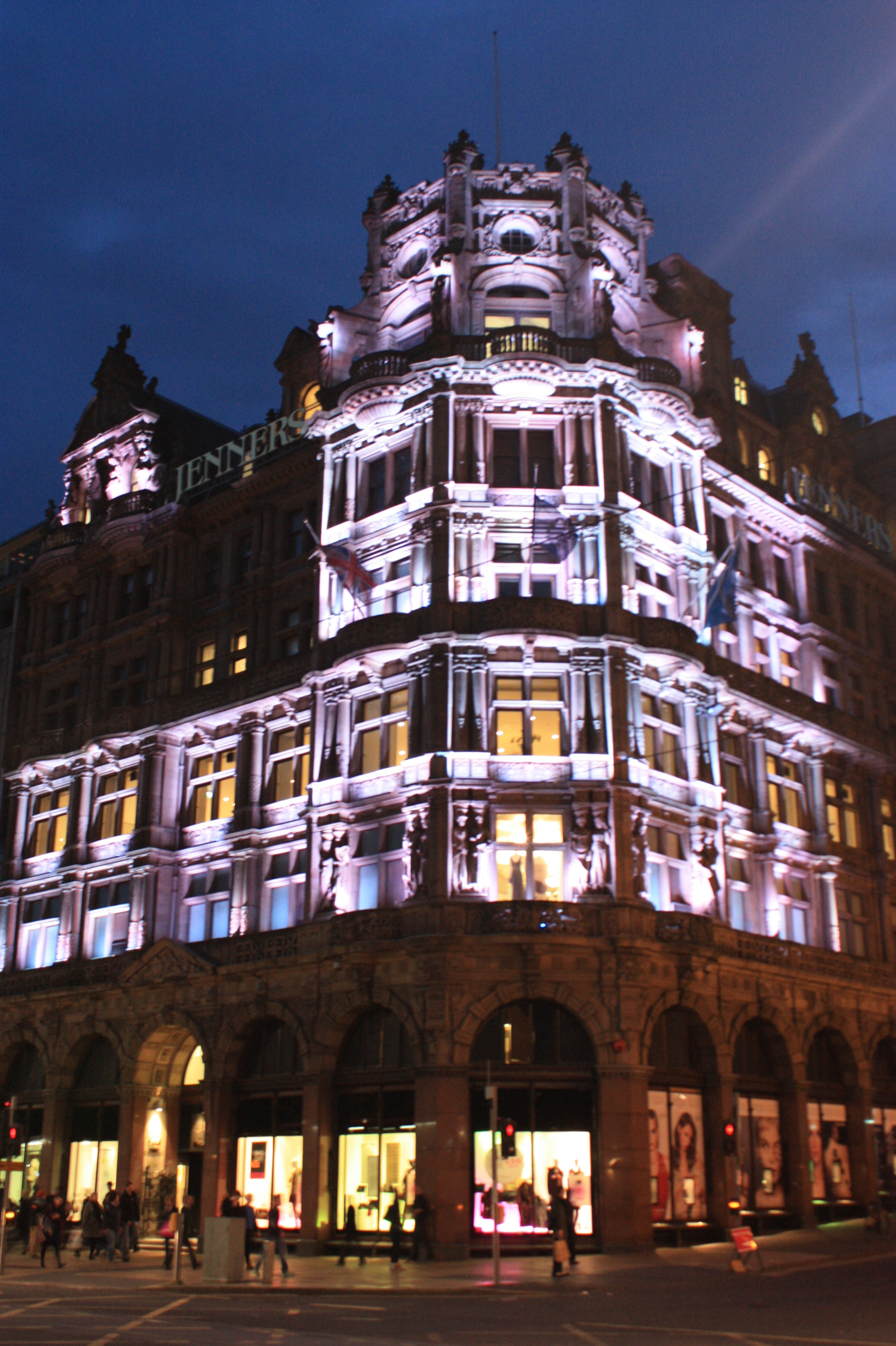 Jenners by night